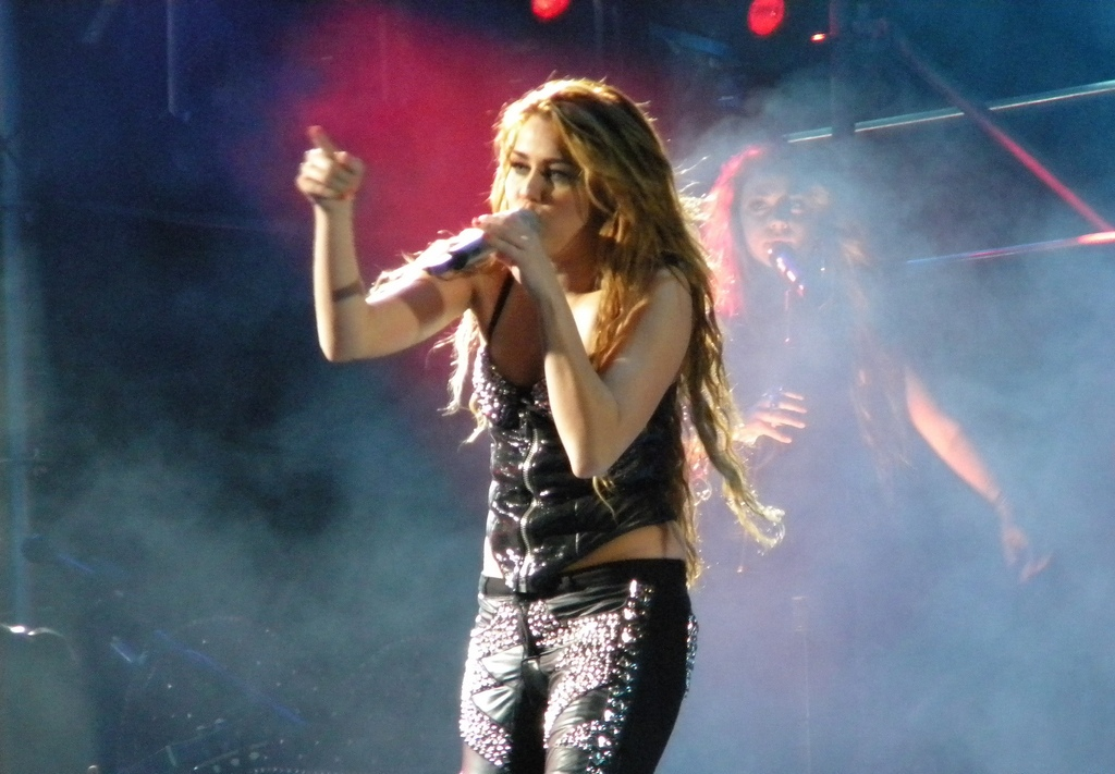 Pop singer Miley Cyrus performing in São Paulo, Brazil as part of her Gypsy Heart Tour in 2011.